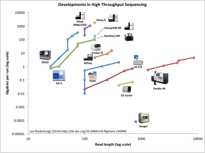 Developments in NGS sequencing